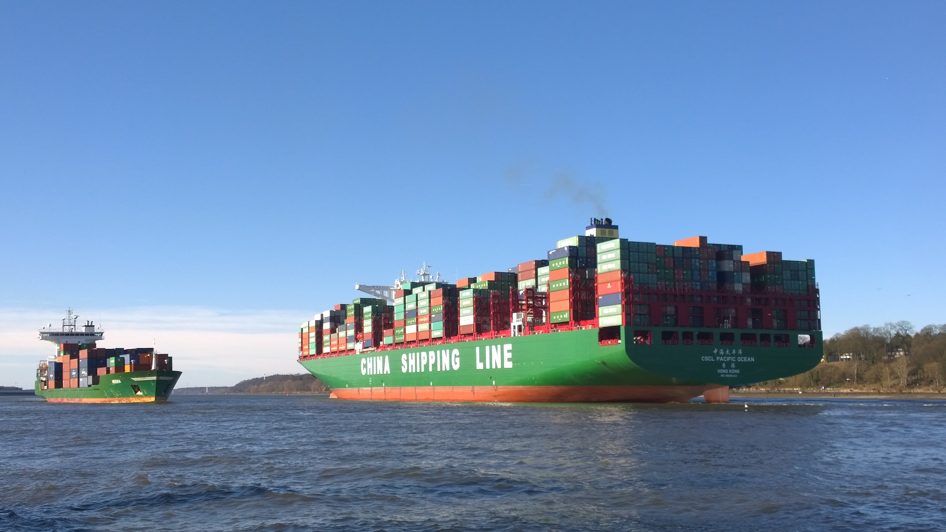 CSCL Pacific Ocean Elbe down, feeder vessel Meera from the Team Lines is contrary to port